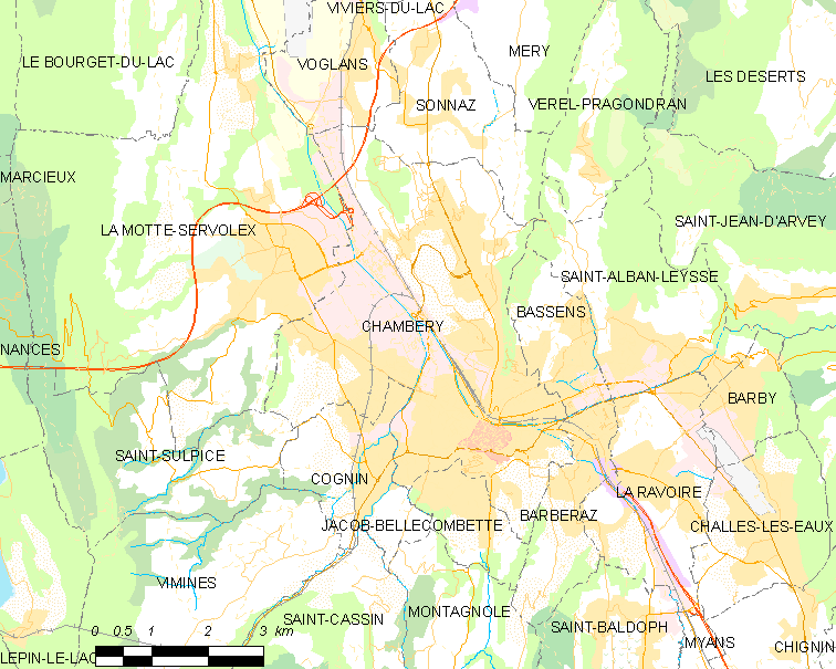 Map of French municipality